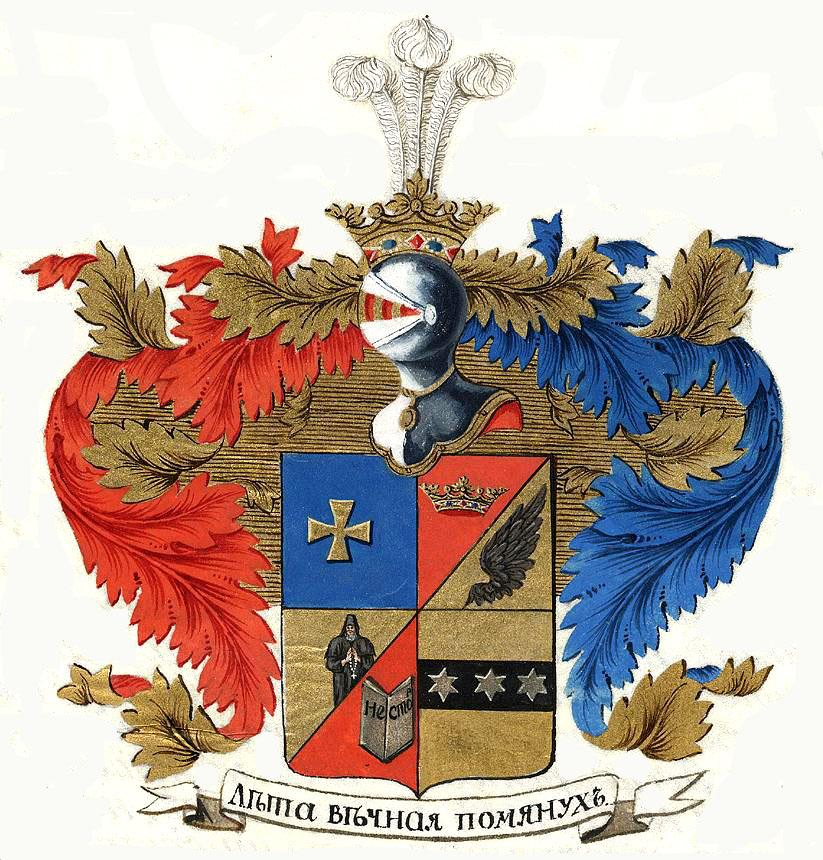 Coat of arms of the Schlözer family according to the Russian Imperial diploma of 1804